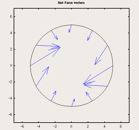 Diagram illustrating how Darrieus wind turbine or Gorlov helical turbine works - drawn by the author to go with article